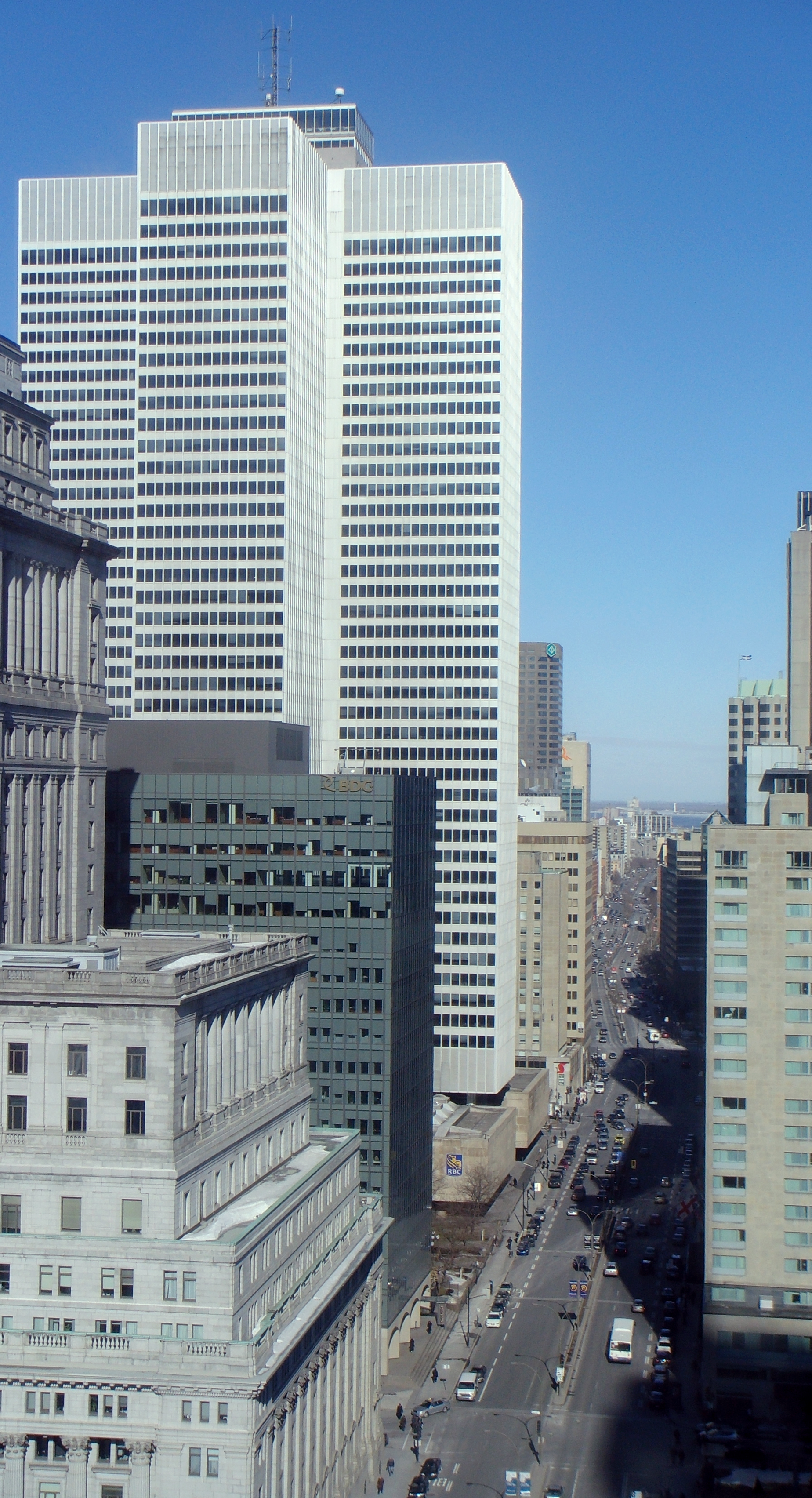 René Lévesque Boulevard close to the SunLife, Royal Bank Towers and the Place-Ville-Marie, Montreal